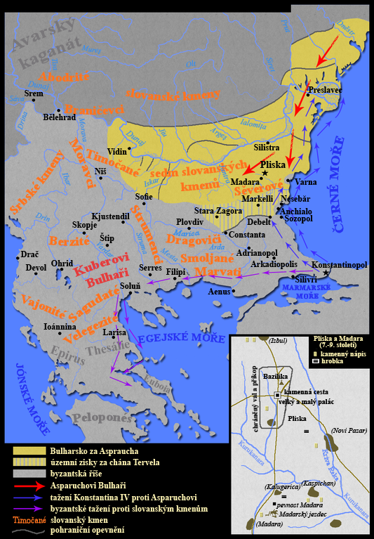 The foundation of the First Bulgarian Empire